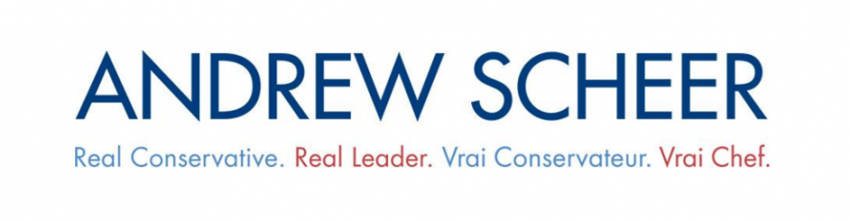 Andrew Scheer leadership campaign logo